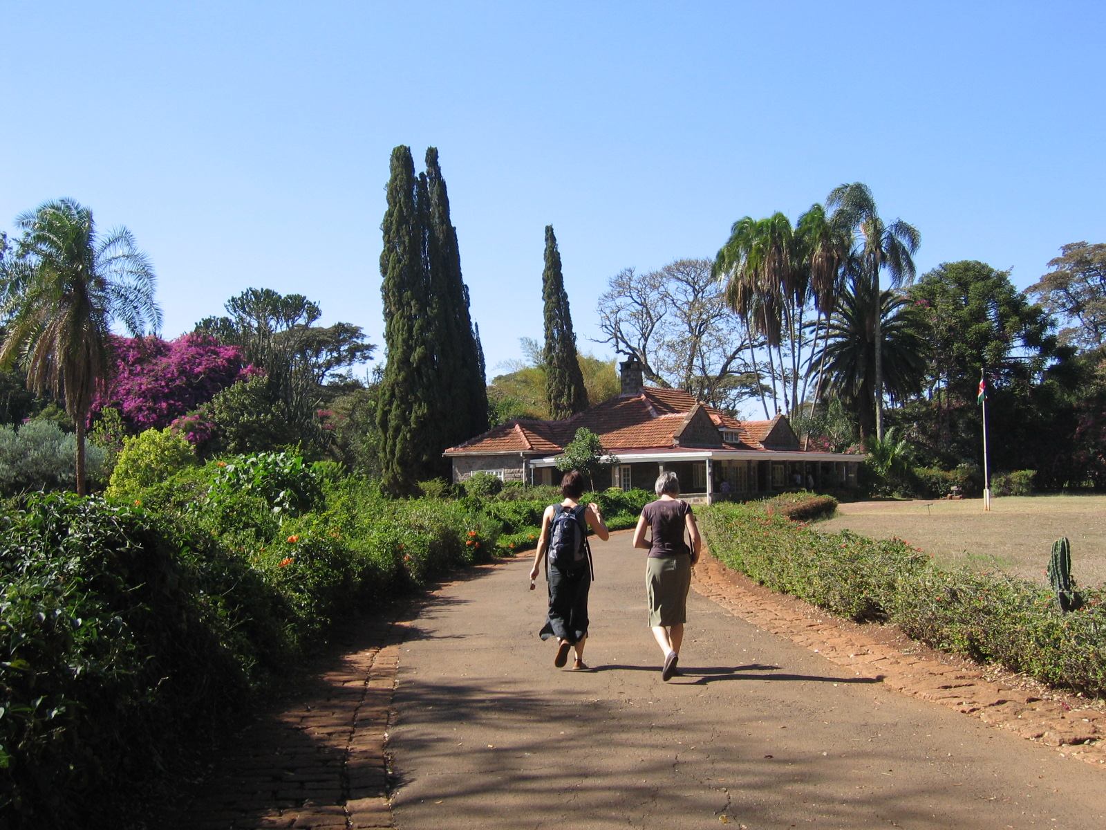 Karen Blixen Museum, Narobi